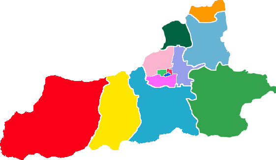 Subdivision of Xi'an